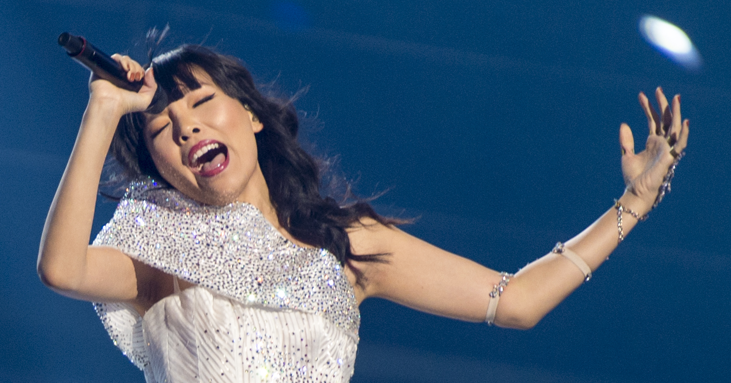 Dami Im representing Australia with the song "Sound of Silence" during a rehearsal before the second semi final of the Eurovision Song Contest 2016 in Stockholm. (Help translate this text)